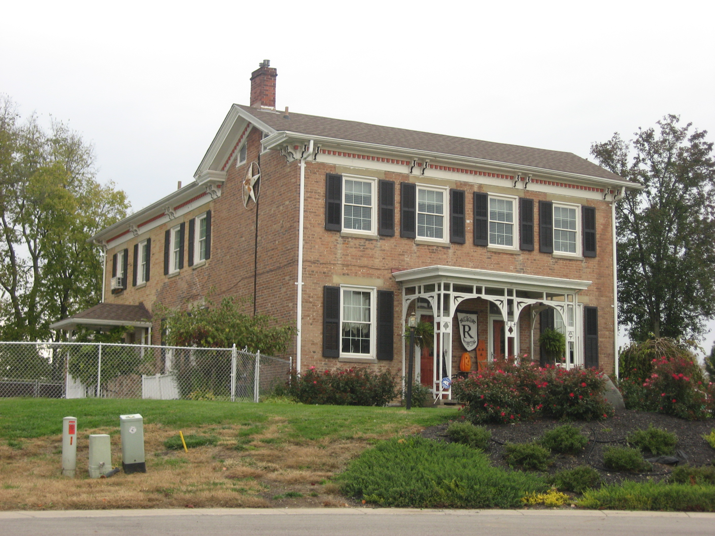 Front and western side of the Peter Schrock Jr. Farmhouse, located at 814 Carriage Lane in Trenton, Ohio, United States. Built in 1865, it is listed on the National Register of Historic Places.